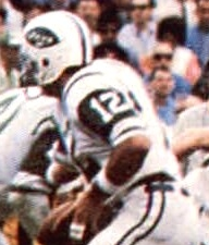 New York Jets' quarterback Joe Namath running a play against the Baltimore Colts during Super Bowl III.